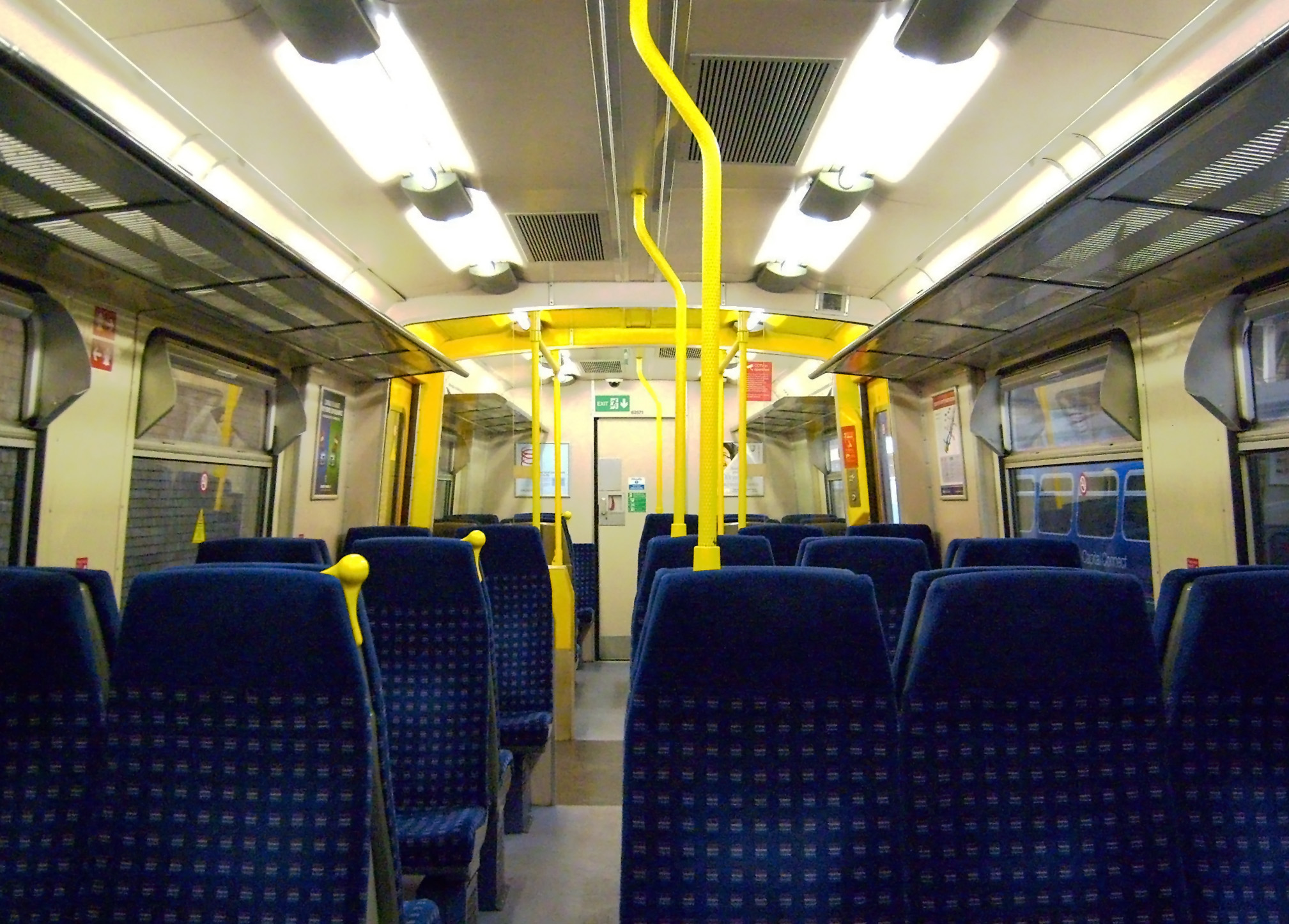 The refreshed interior of a First Capital Connect Class 313 313044 at King's Cross.